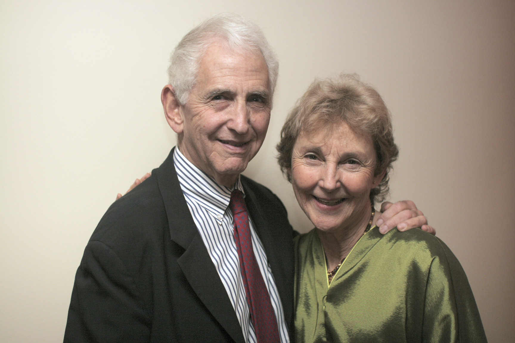 Daniel Ellsberg speaks at the French Garden Restaurant